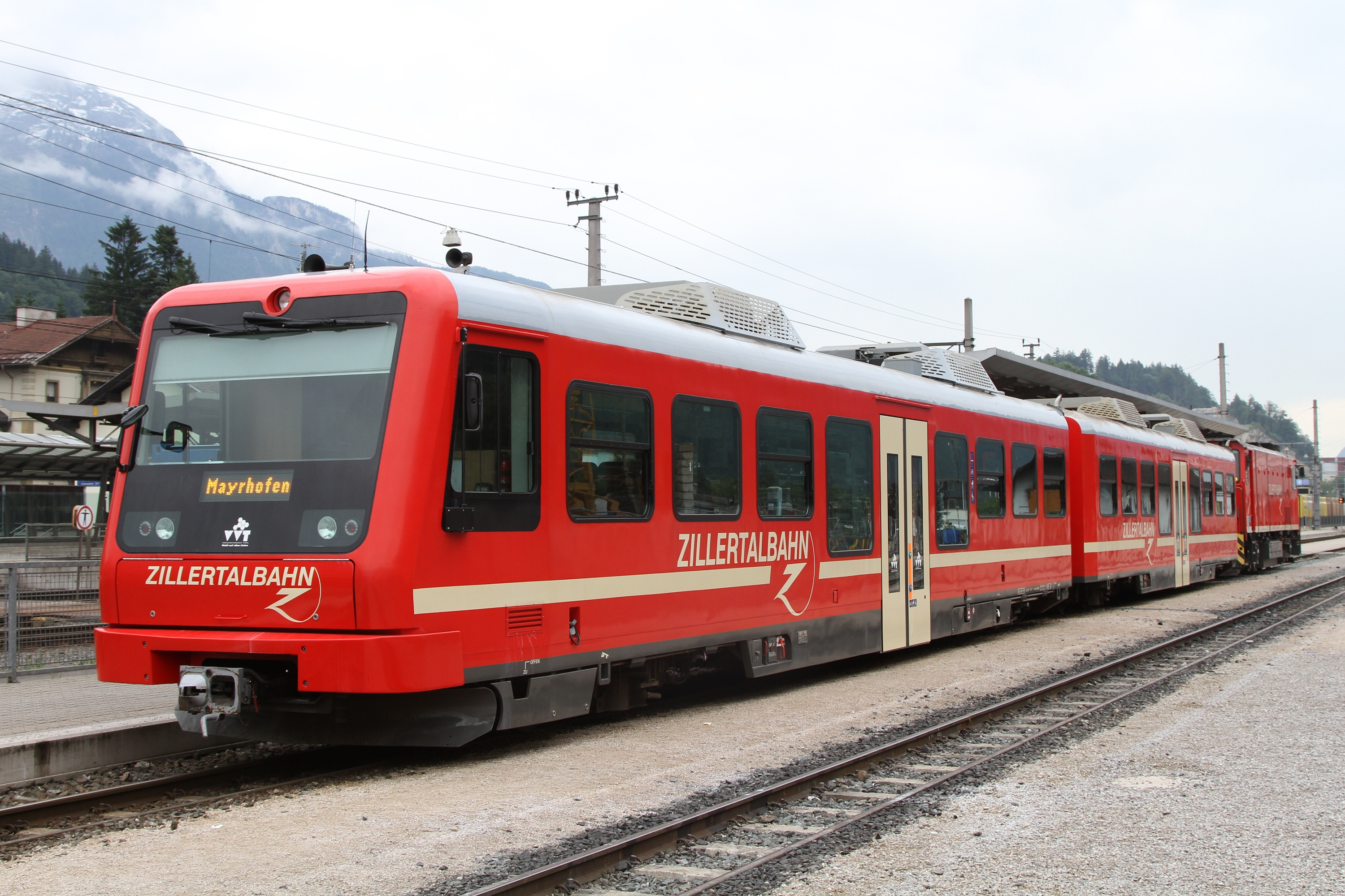 New Zillertalbahn trainset with steering unit VS7 and a Gmeinder diesel engine at Jenbach station.